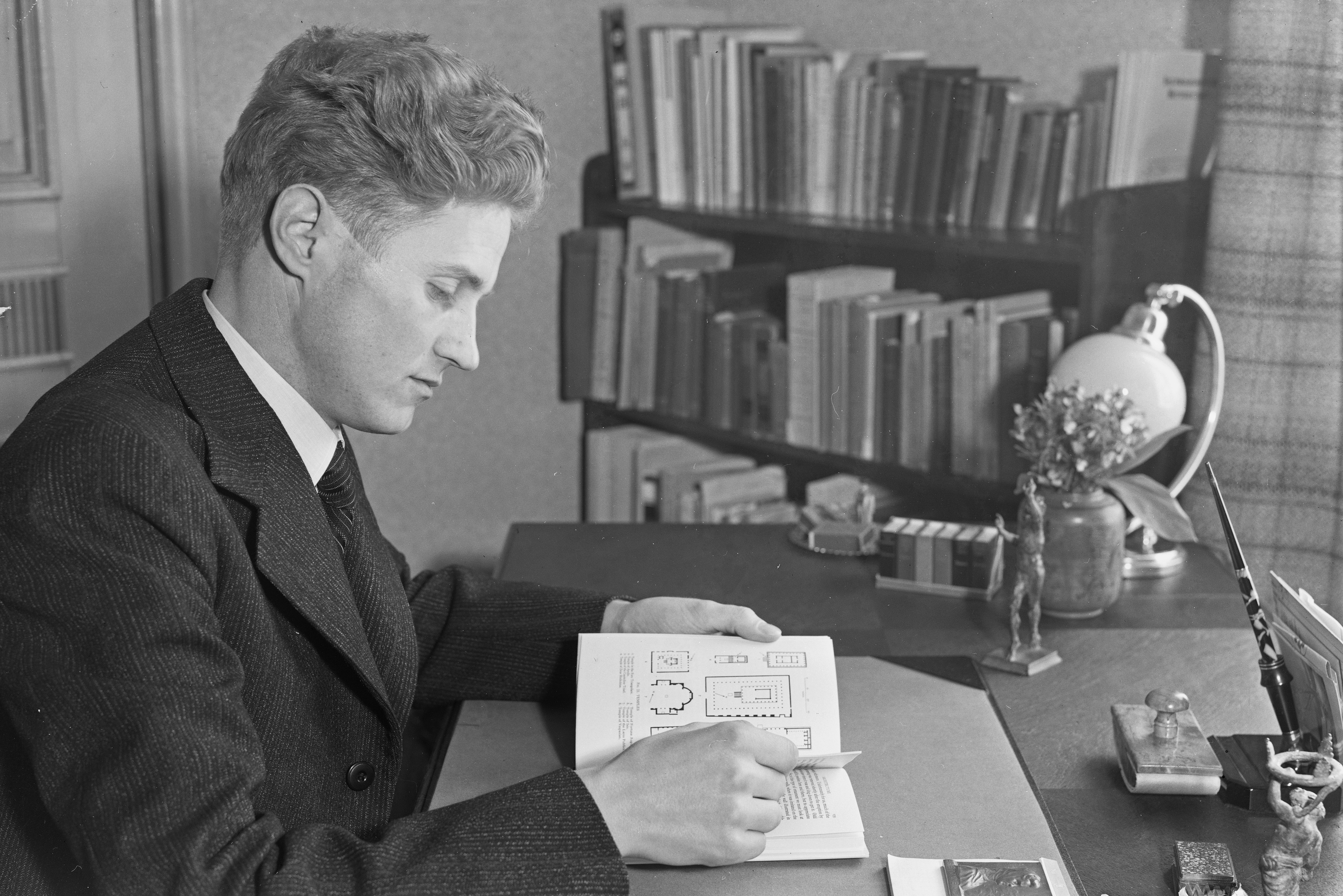 Photograph of the Finnish linguist Veikko Väänänen (1905–1997).